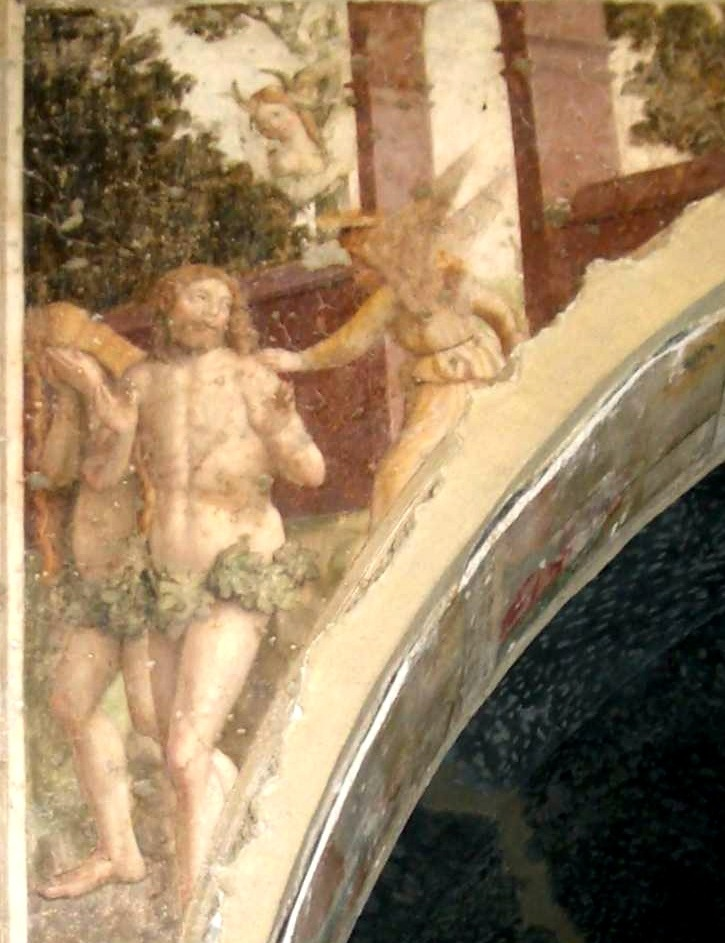 Giovanni Martino Spanzotti, "The Expulsion from the Garden of Eden", ca 1486-91, fresco, scene from the large dividing wall of the convent church of San Bernardino, Ivrea Italy